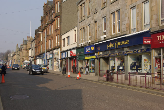 Sinclair Street, Helensburgh Sinclair Street leads north away from the seafront. The town is laid out on a grid pattern.